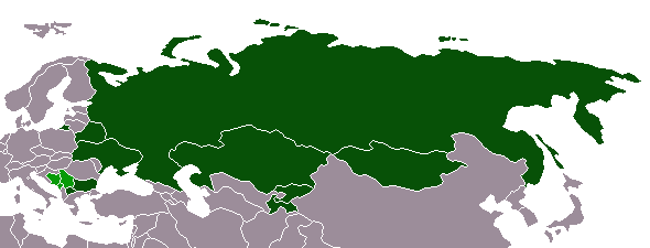 This map shows in dark green the countries that adopt the cyrillic alphabet as the official main script. And in light green, the countries that uses officially the cyrillic alongside another script.